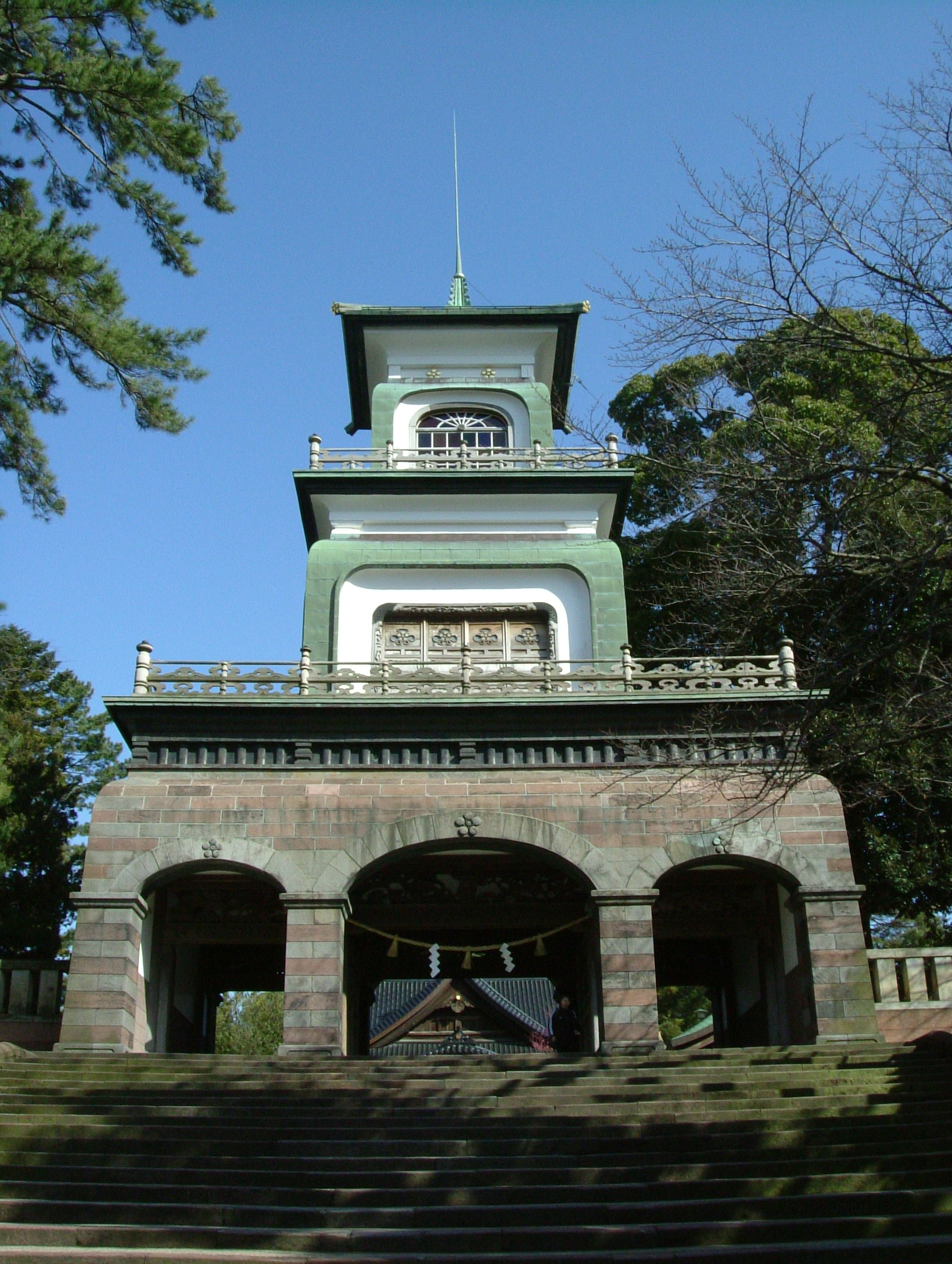 Oyama-jinja in Kanazawa, Ishikawa, Japan